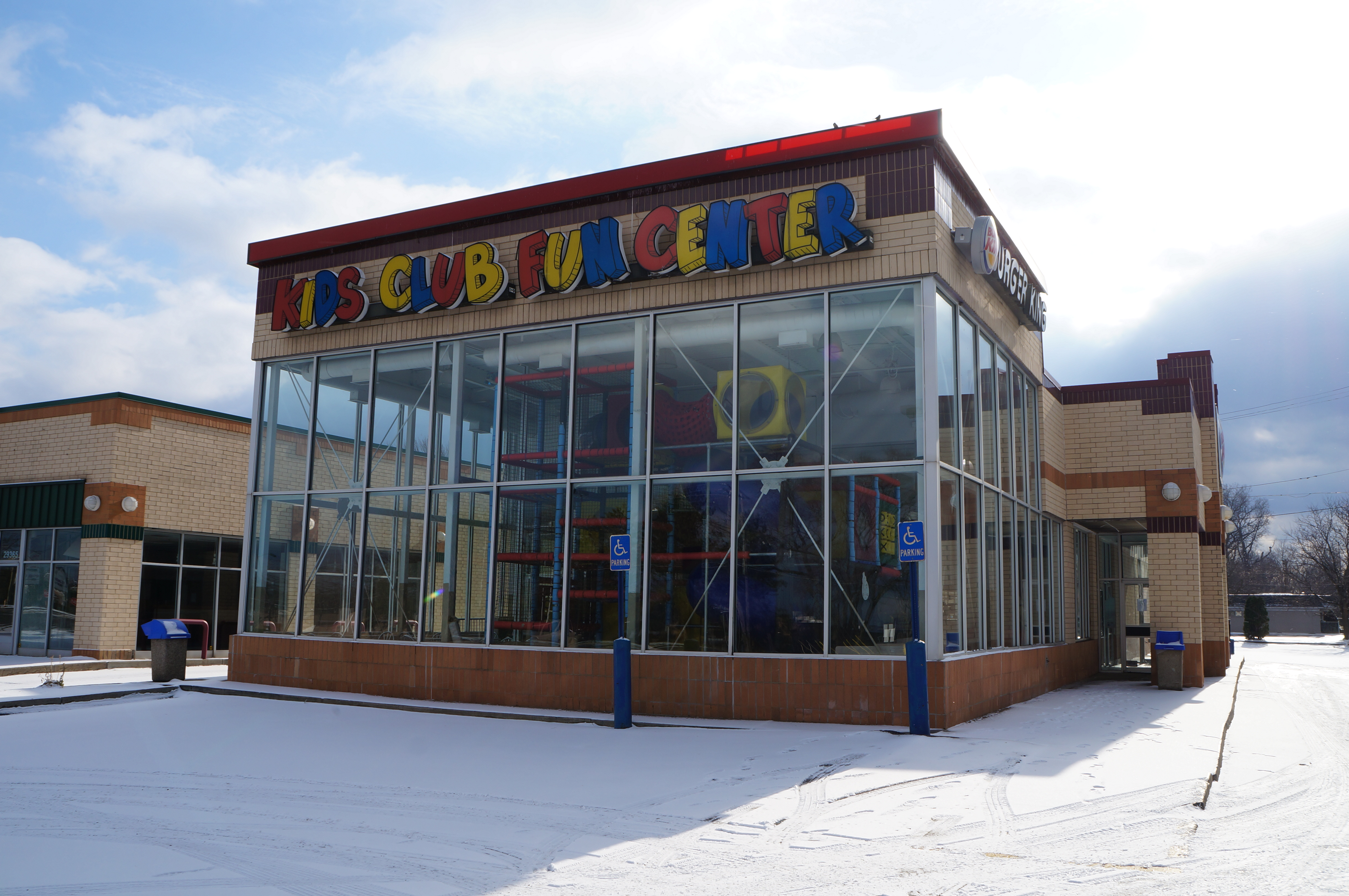 A Burger King Kids Club Fun Center in Westland, Michigan